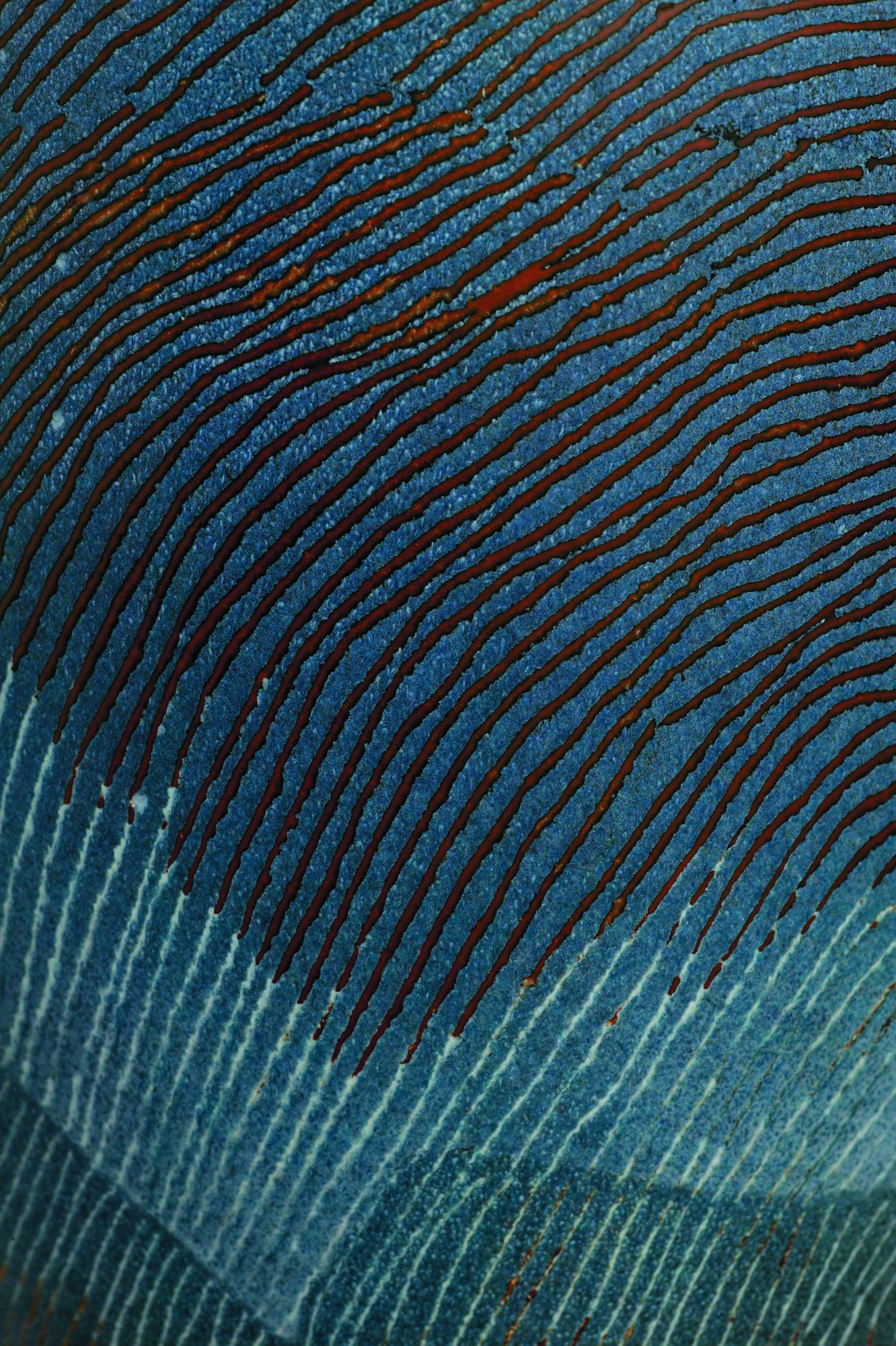 Detail of the glazing on a Pippin Drysdale ceramic vessel